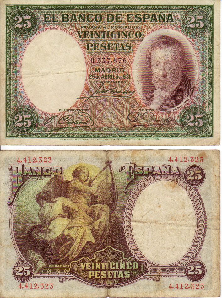 Spanish republic, bank note 25 peseta, observe and reverse Scan from own collection